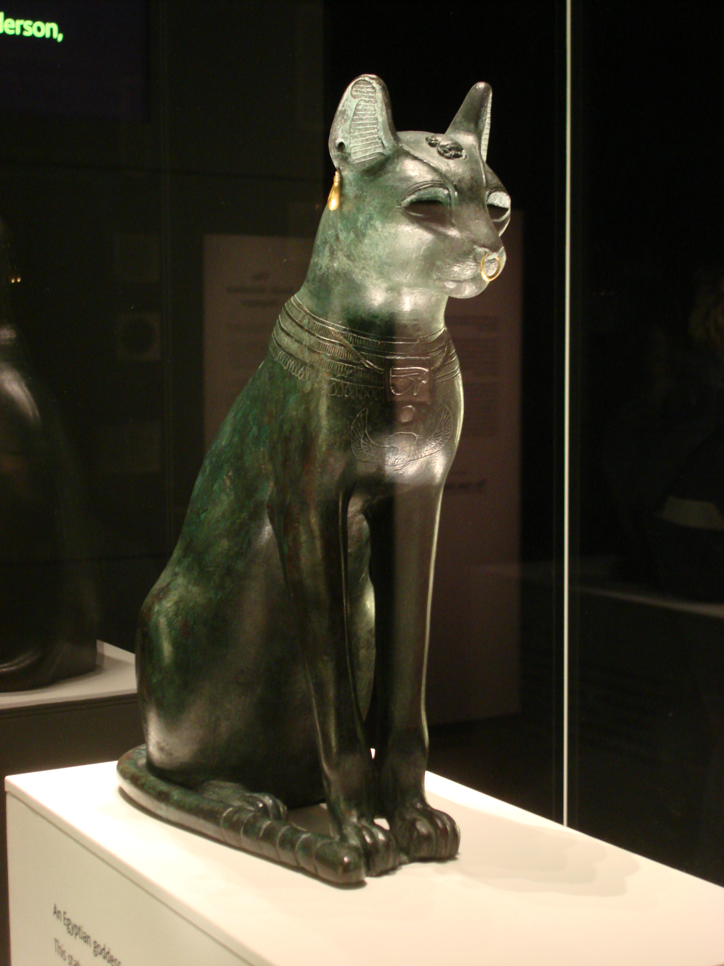 Gayer-Anderson Cat; Made out of bronze, from the Late Period about 664-332 BC. It is a representation of the cat-goddess Bastet. The cat wears jewellery and a protective wedjat amulet. A winged scarab appears on the chest and head. This sculpture is now known as the Gayer-Anderson cat, after its donor to The British Museum.